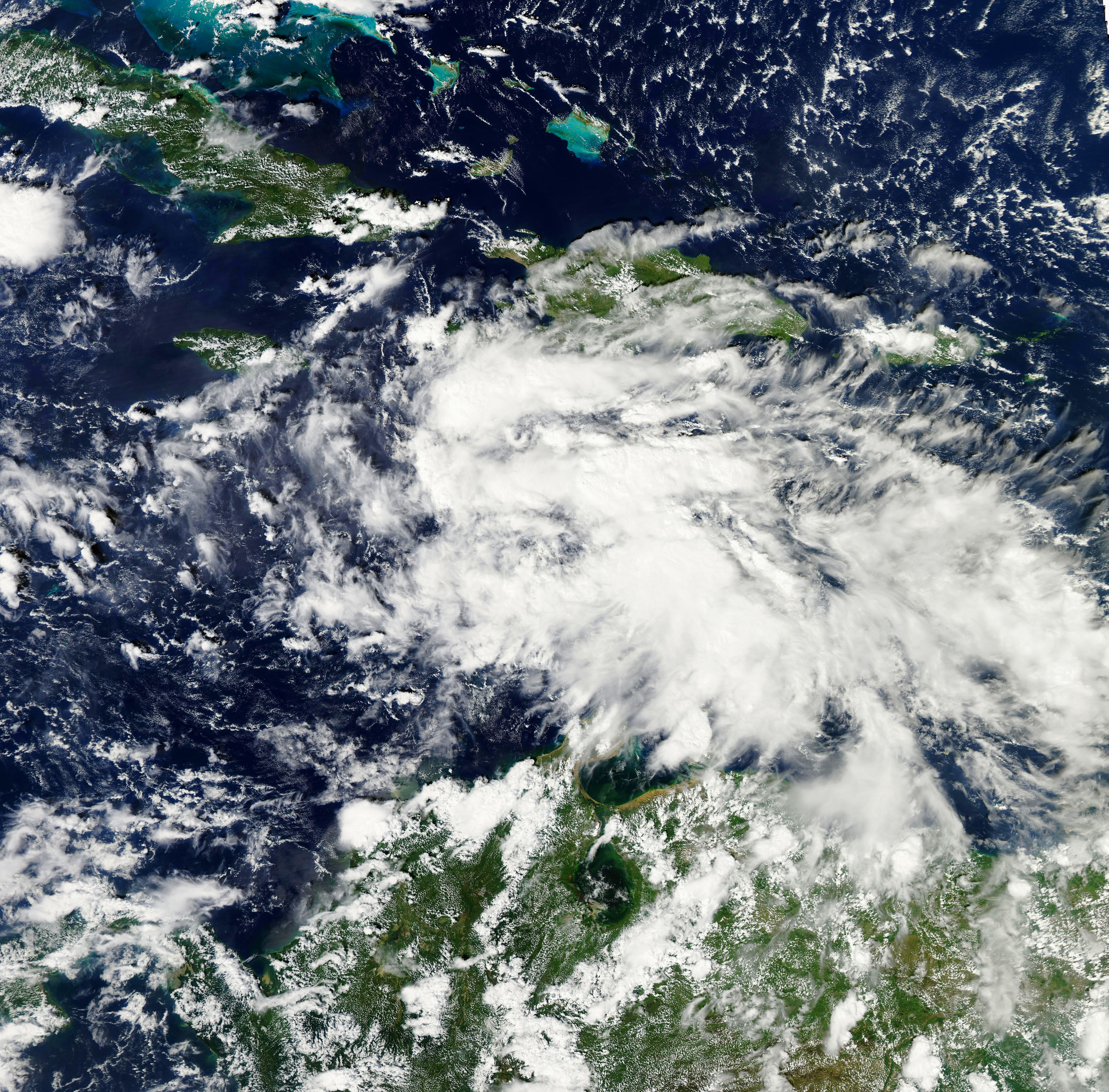 The Moderate Resolution Imaging Spectroradiometer (MODIS) on NASA’s Terra satellite captured this natural-color image of Sandy, as a cluster of thunderstorms, or a tropical disturbance on October 20, 2012.